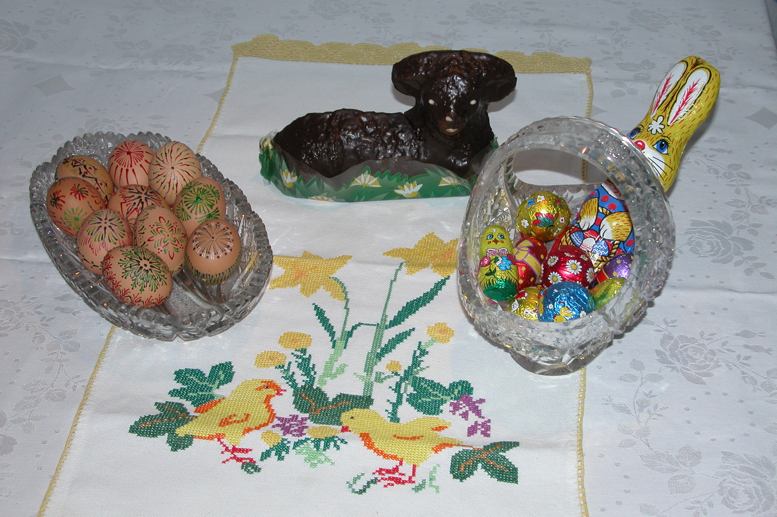 Easter eggs (called kraslice, different styles of artwork on empty egg shells), a chocolate easter lamb, chocolate eggs and bunny and a table-cloth with spring symbolics -- young chickens and flowers. Author: user:Palica